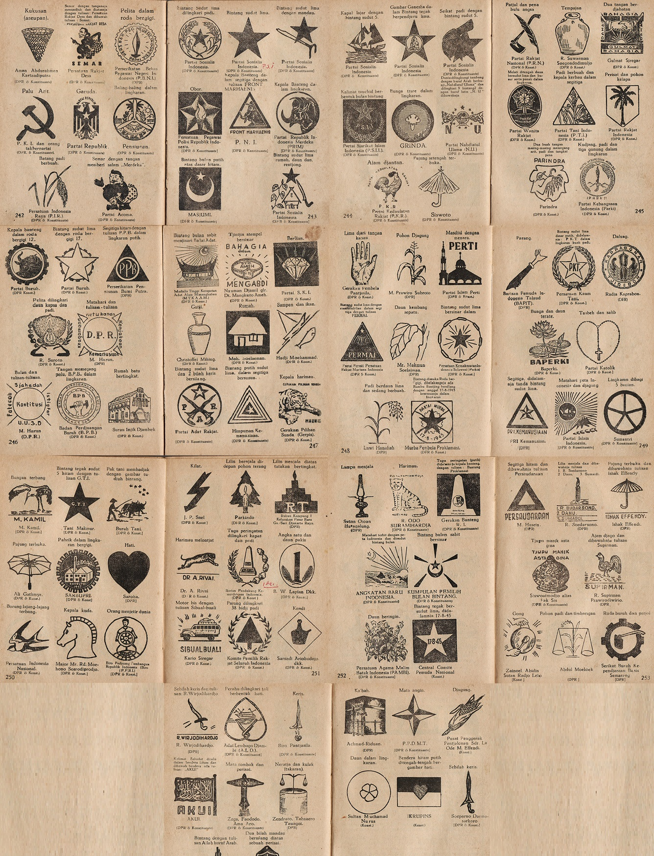 A list of Indonesian political parties before the 1955 election.